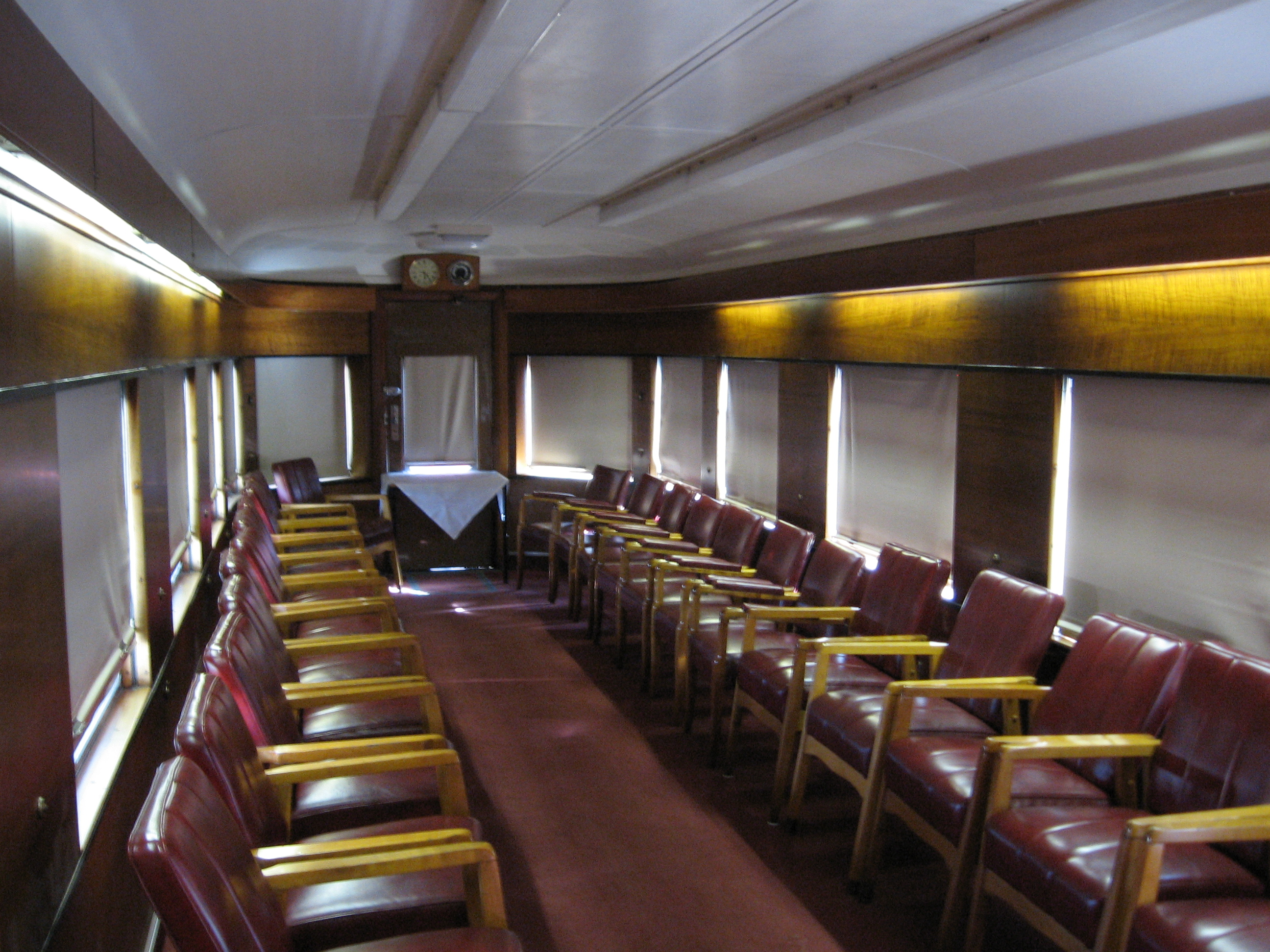 The interior of the Norman car, a Victorian Railways observation car variant of the S type carriage.